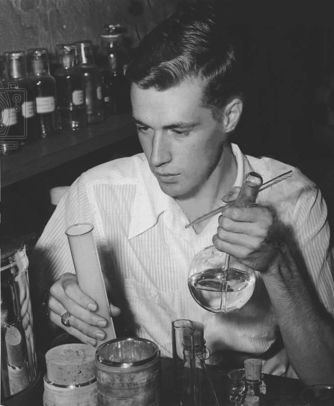 1943 Press Photo Bill Hulse-fastest American runner works as a research chemist